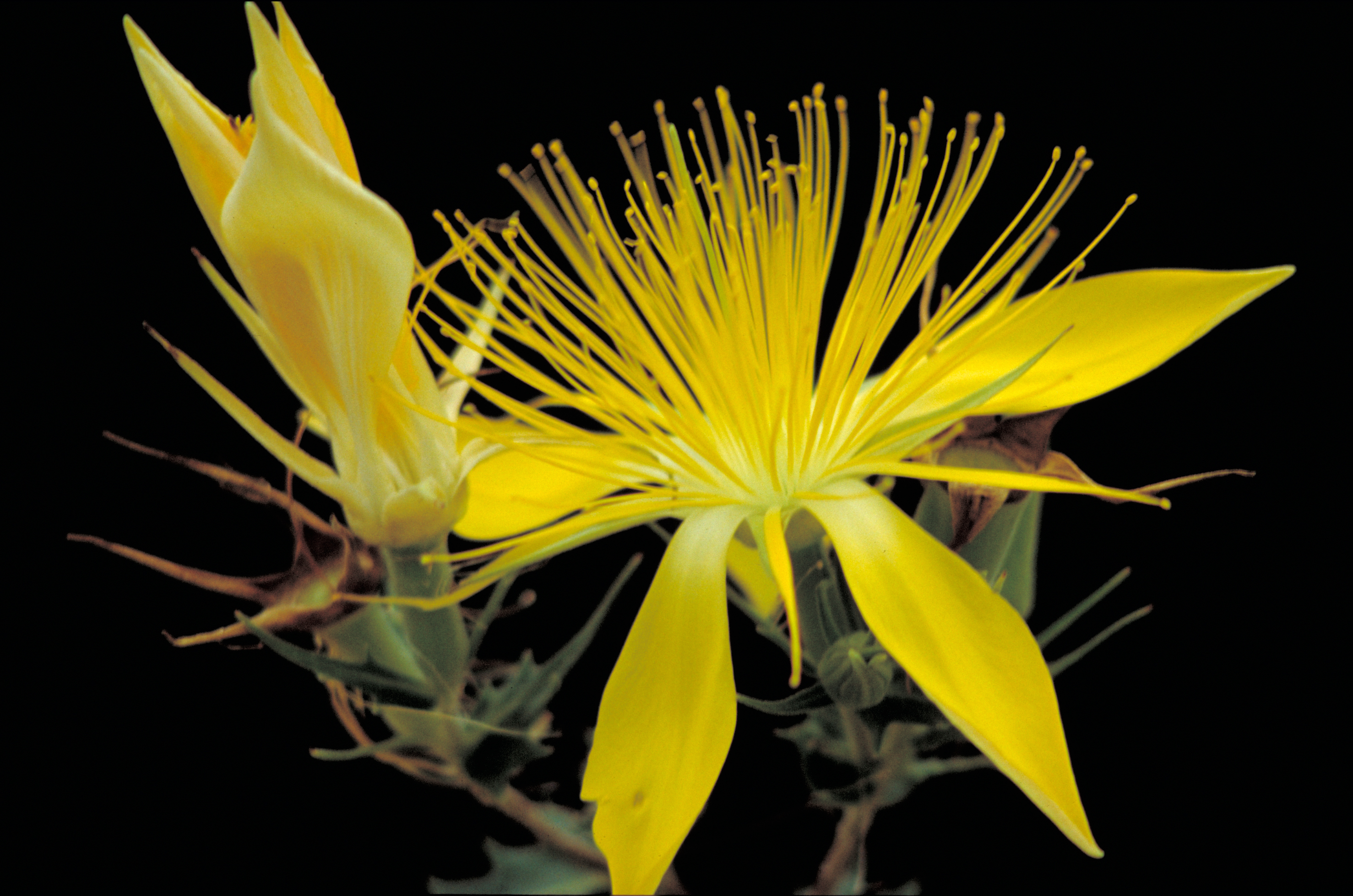 Mentzelia multiflora — Adonis blazingstar, flower closeup. Native to North America, in sections of the Great Plains; and in the Sonoran, Chuihuahuan, and Mojave Deserts.